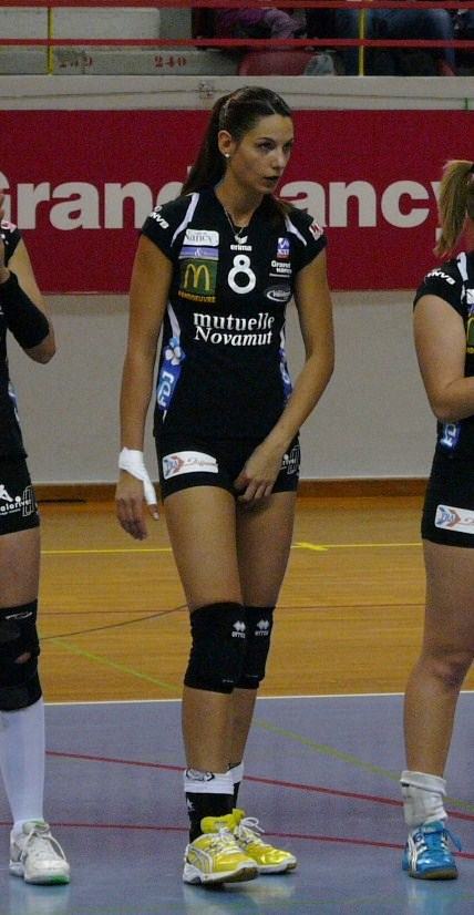 German volleyball player Loraine Henkel.